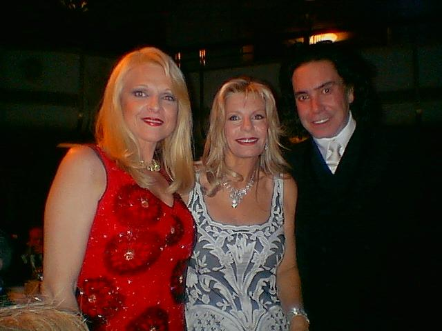 Yasmin Aga Khan (center) with Margo Catsimatidis and Rodolfo Valentin